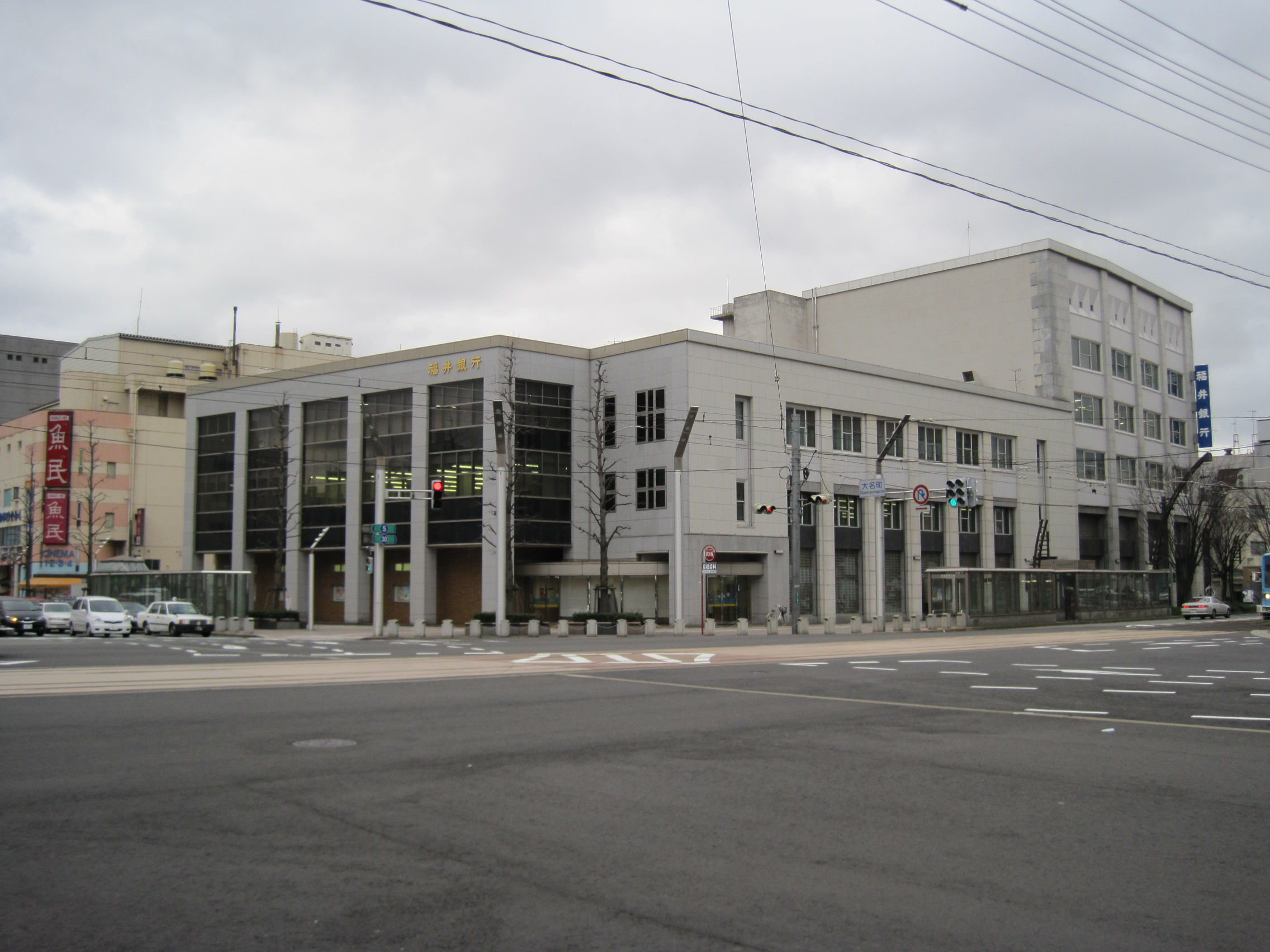 Headquarters of Fukui Bank (Bank of Japan Fukui local office) in Fukui, Fukui prefecture, Japan